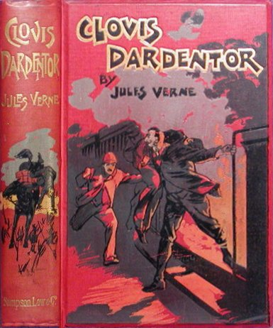 100 year old book cover by Jules Verne